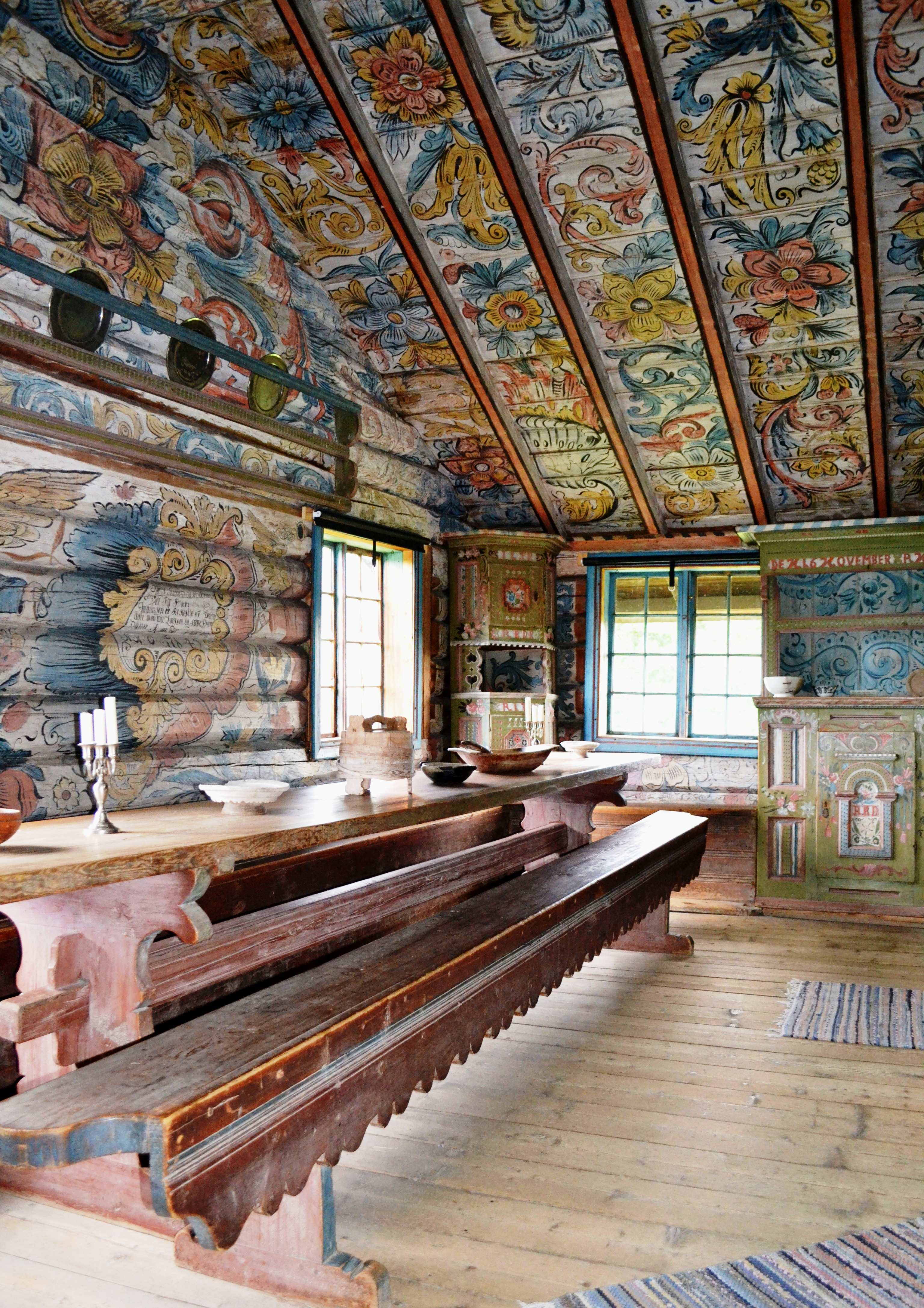 Rambergstugo at Heddal Bygdetun